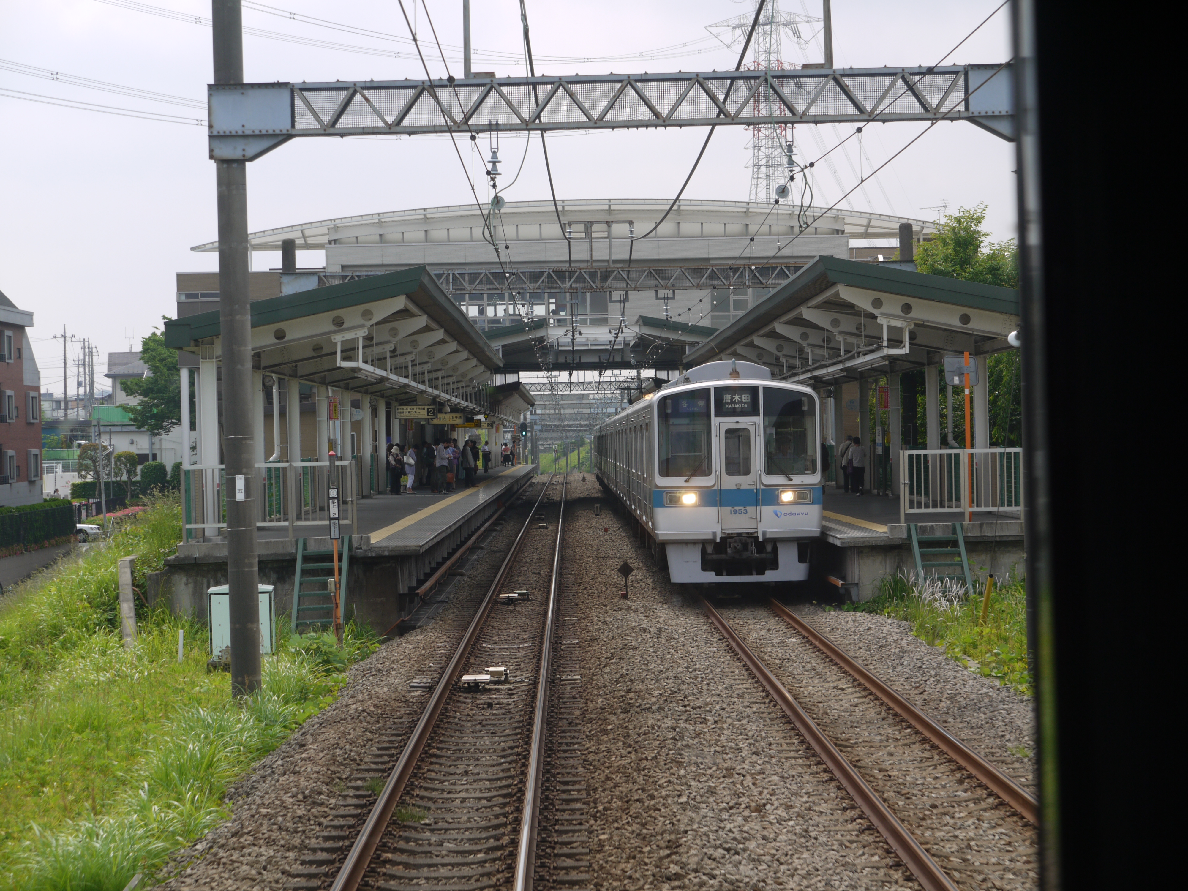 Odakyu Satsukidai station Platforms taken from an inbound train